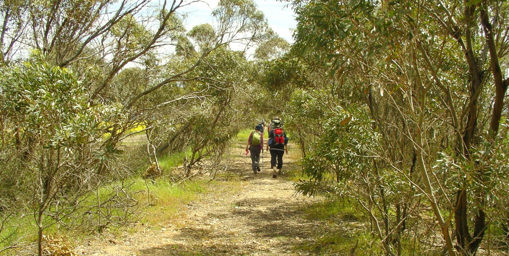 Image shows two people walking and some of the vegetation types and ground on the route of the former Milang railway line (Nurragi Conservation Reserve), South Australia